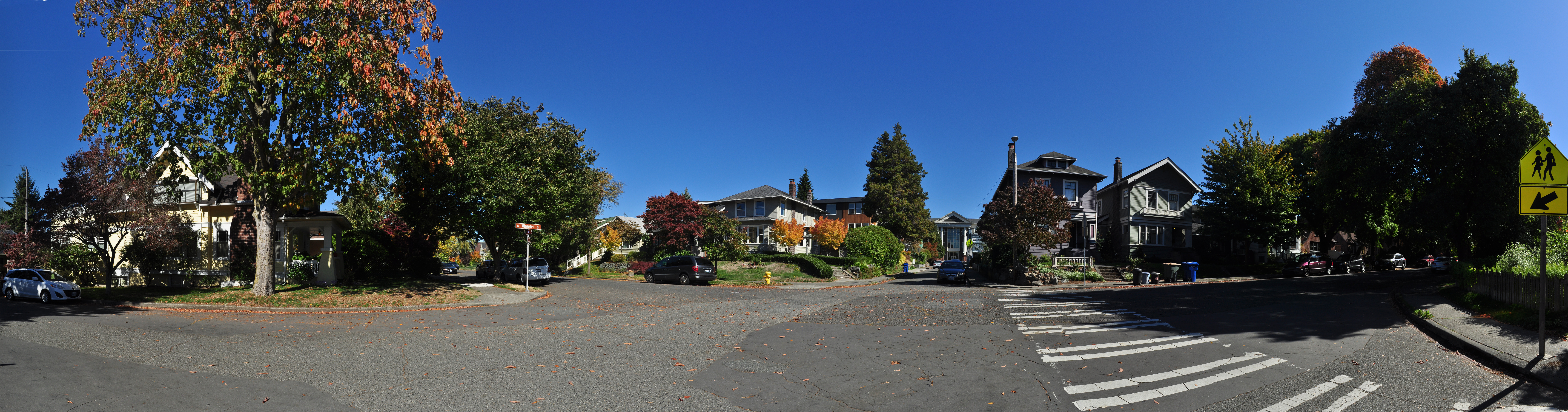 Roughly 270° panorama at 8th Ave W & W Wheeler St. W Wheeler to the left and 8th Ave W to the right constitute part of Queen Anne Boulevard. One block away on the other branch of W Wheeler is the Coe School. This image was created with Hugin